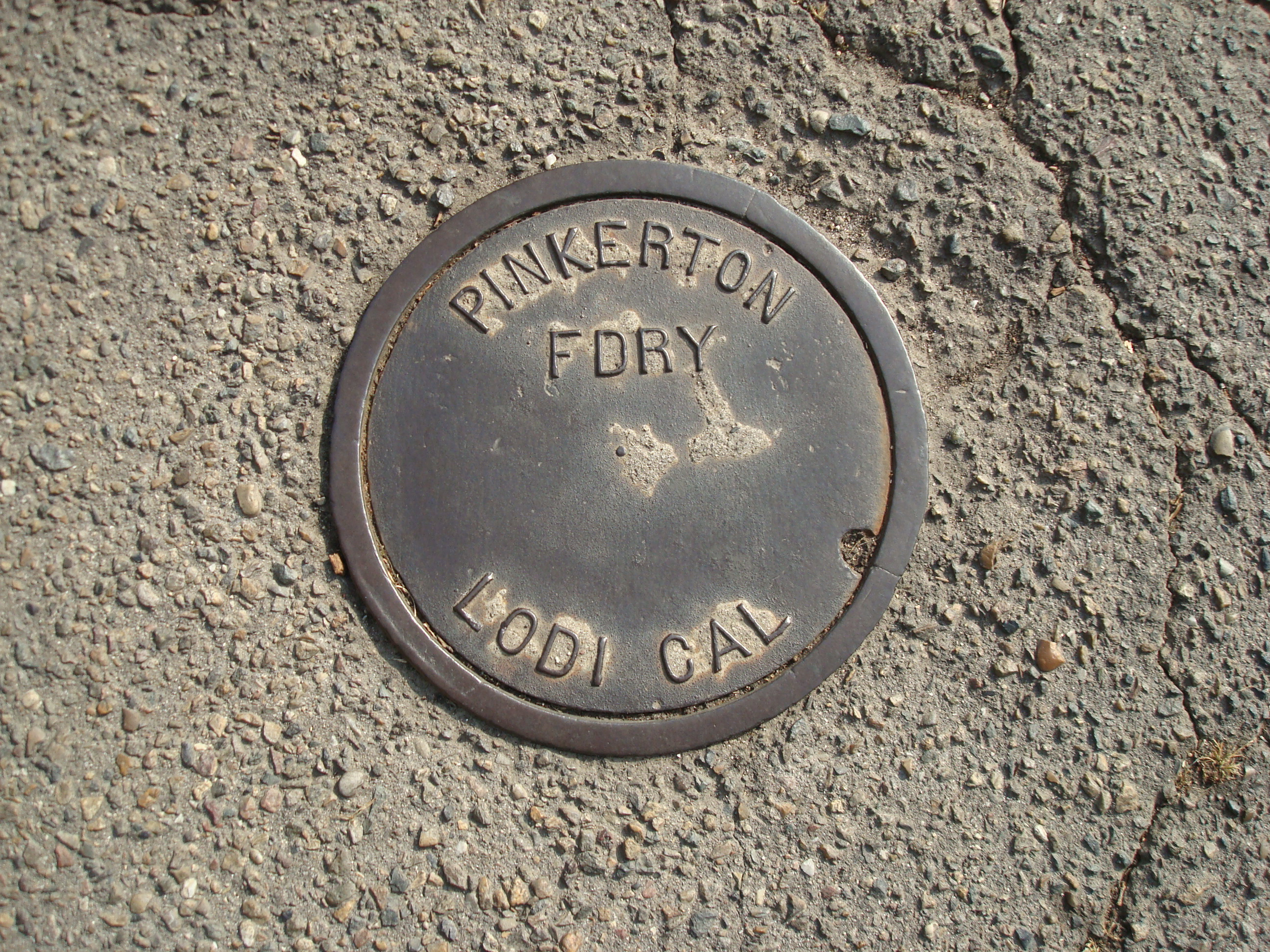 Manhole cover Pinkerton Foundry, Lodi, California